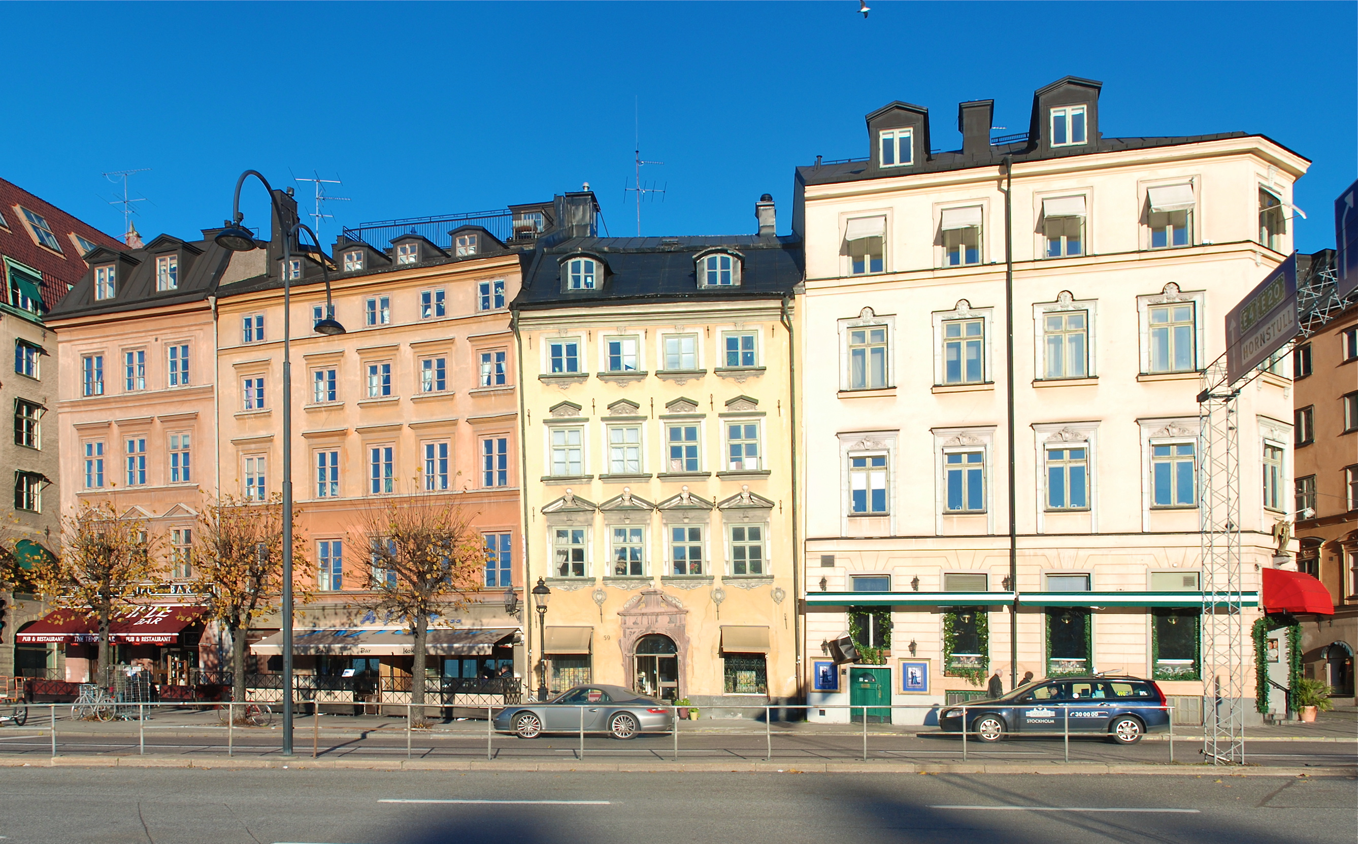 Kornhamnstorg 53-61